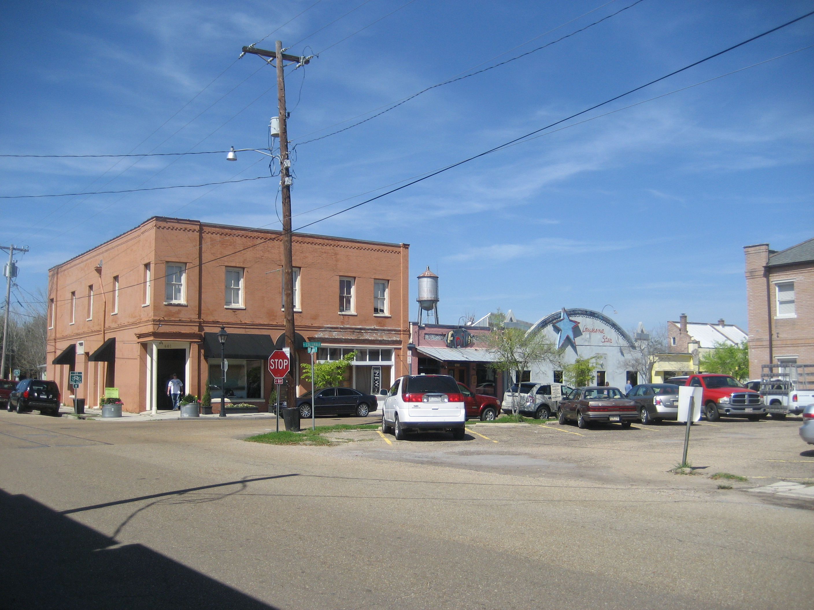 Covington, Louisiana. View towards water tower from Columbia Street.